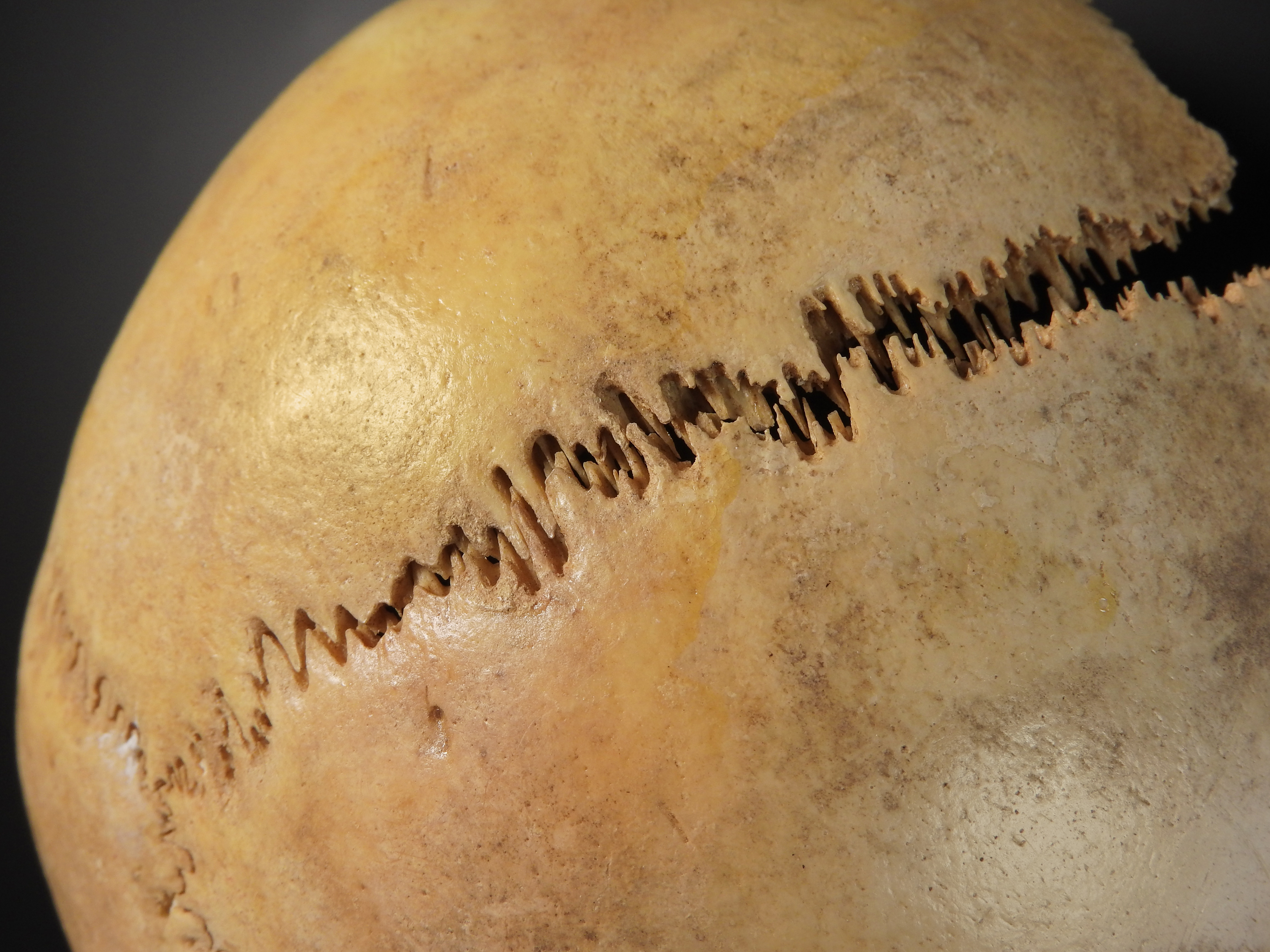 This item is a part of anthropological collections of the Department of Biology and Environmental Studies of the Faculty of Education of Charles University. Its reproduction is part of a project funded by the Student Grant in 2019.